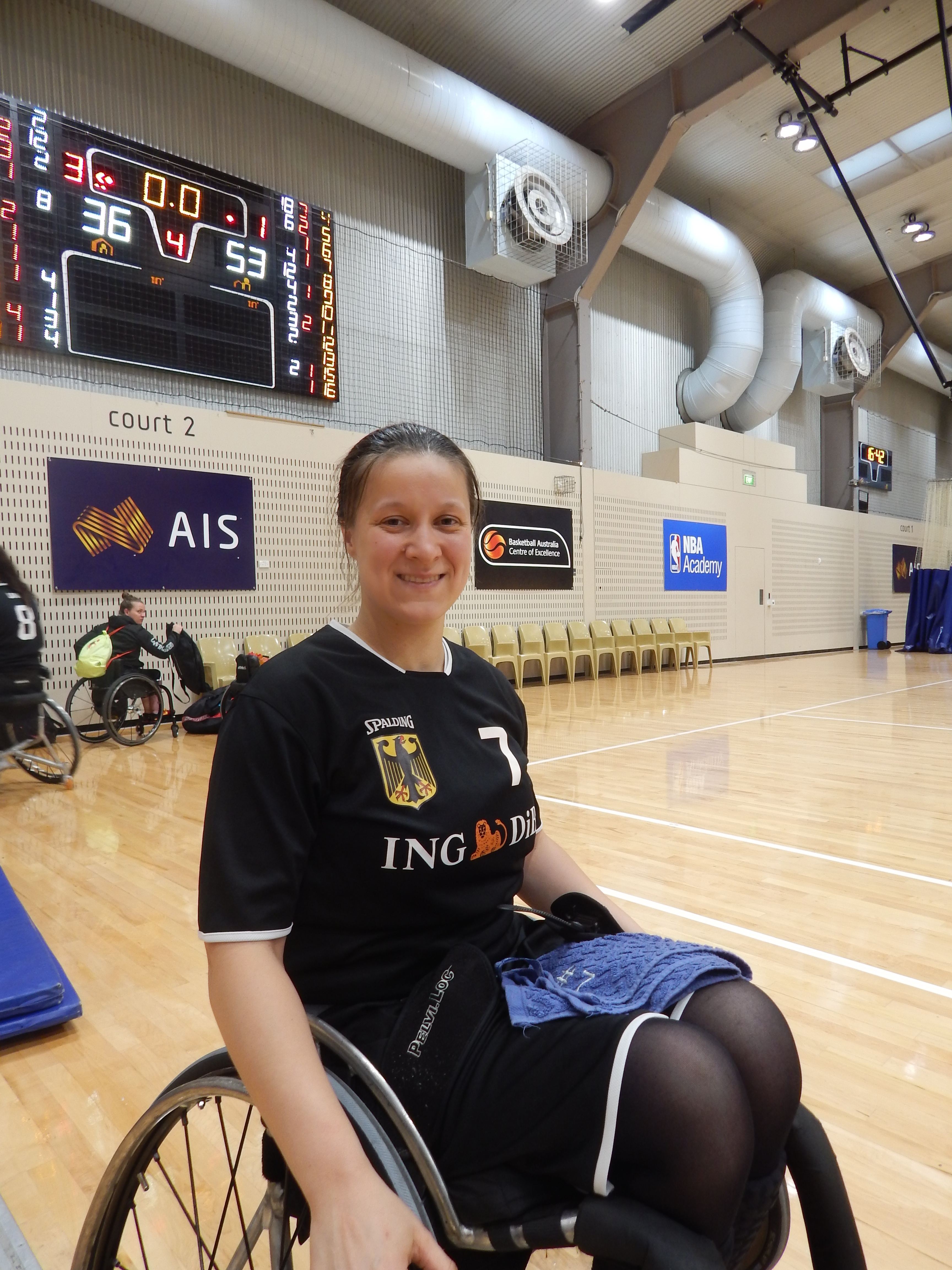 Germany No. 7 - Anne Patzwald